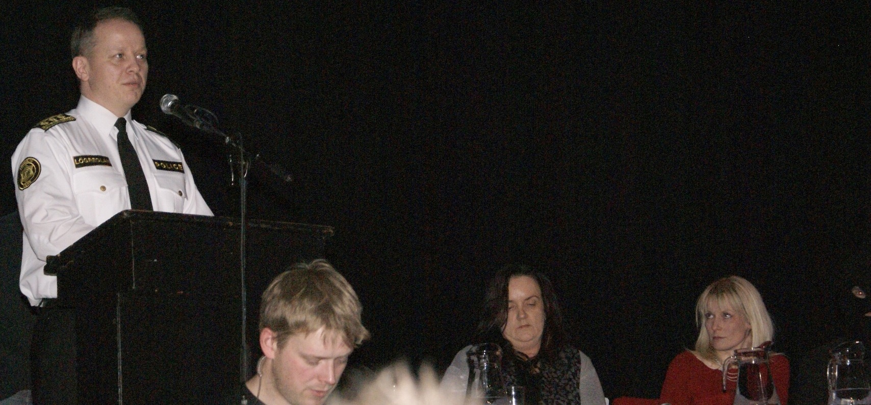 W13a 2009-01-08. Stefan Eiriksson chief of police at Idnó Opinn borgarafundur #7 - Diffrent viewes on protests. Organized by Opinn borgarafundur (Civic Action Association). Part of the protests in the wake of the collapse of the banking system followed be the decimation of Icelandic economy in the beginning of October 2008. It resulted in the resignation of Geir H. Haarde and his cabinet on January 26. 2009.